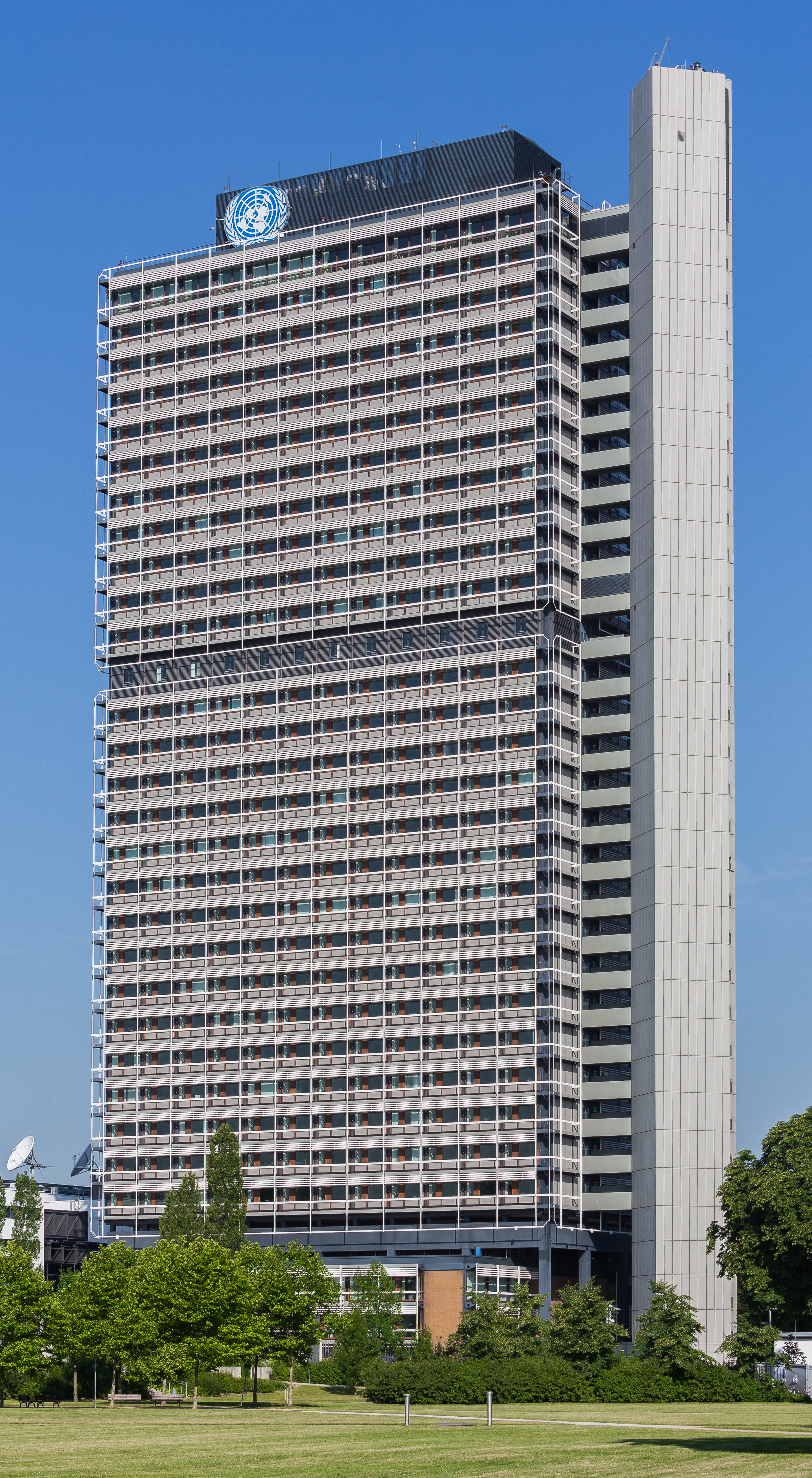 Office building highrise “Langer Eugen” in Bonn-Gronau; former highrise of members of parliament, now part of the “United Nations Campus” and used by several organisations of the United Nations; view from east-southeast